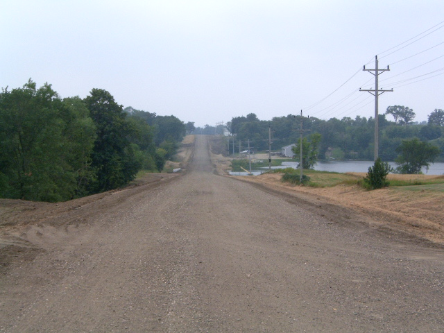 A country road in Becker County, Minnesota. I TOOK THIS PHOTO MYSELF in August 2006, and I hereby release it -- totally and without any restrictions whatsoever -- into the public domain. Moncrief 01:56, 5 December 2006 (UTC)